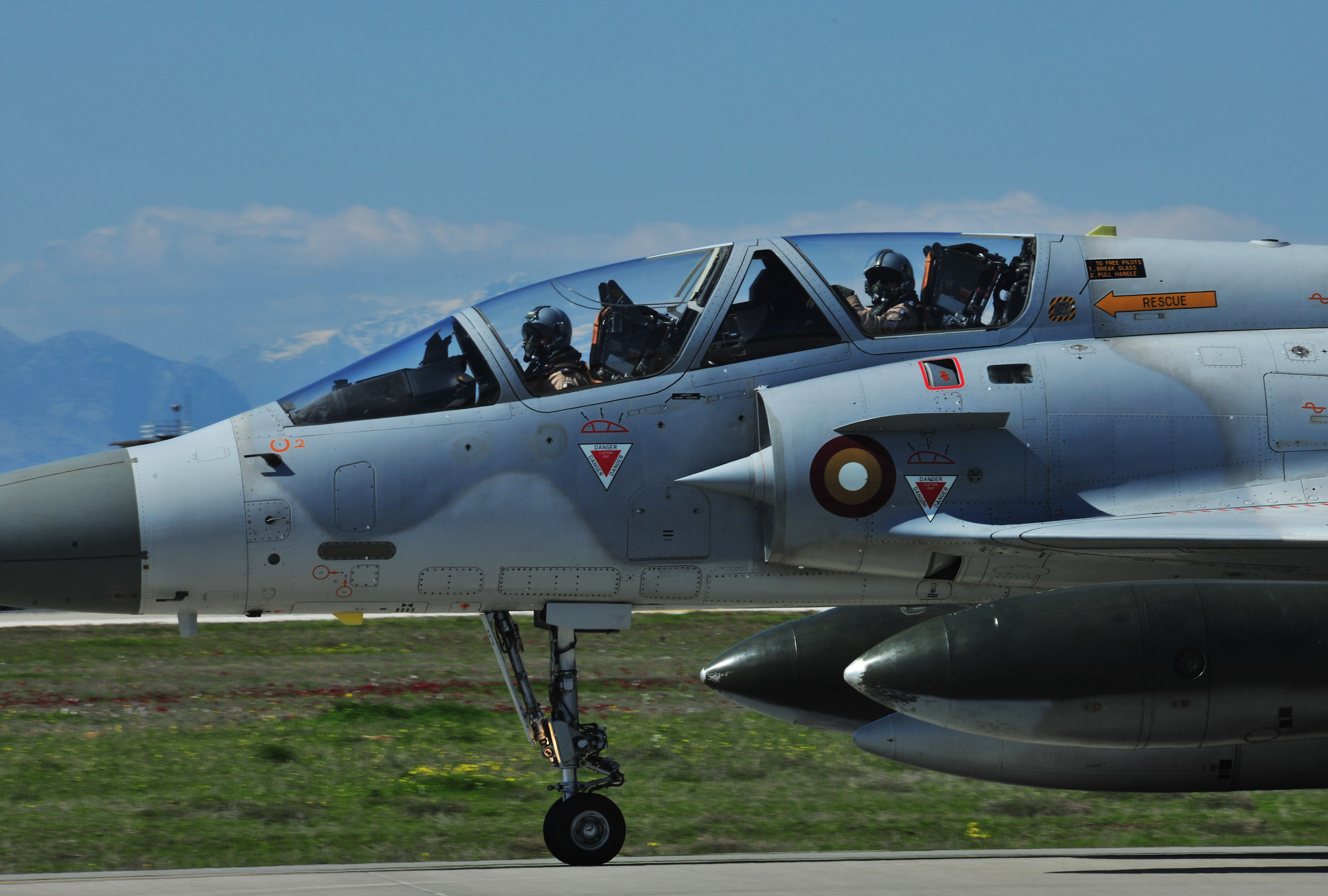 A Qatari Mirage 2000-5 jet drives down the runway to refuel in support of Operation Odyssey Dawn March 25, 2011, at Incirlik Air Base, Turkey. Joint Task Force Odyssey Dawn is the U.S. Africa Command task force established to provide operational and tactical command and control of U.S. military forces supporting the international response to the unrest in Libya and enforcement of United Nations Security Council Resolution 1973. UNSCR 1973 authorized all necessary measures to protect civilians in Libya under threat of attack by Qadhafi regime forces. JTF Odyssey Dawn is commanded by U.S. Navy Admiral Samuel J. Locklear, III.